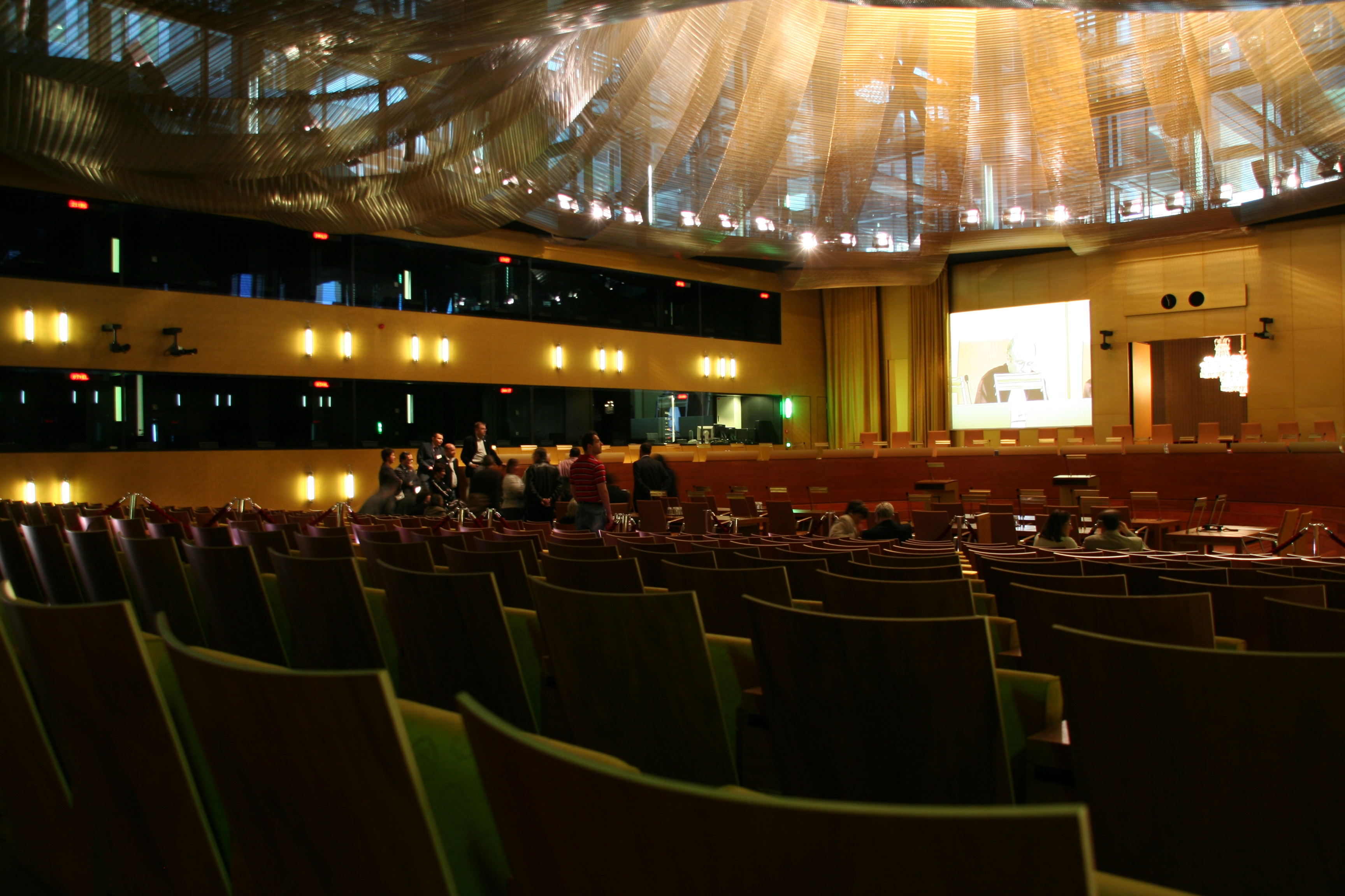 Grand courtroom in the Ancien Palais building of the Court of Justice of the European Union in Kirchberg, Luxembourg City, Luxembourg, May 2009.